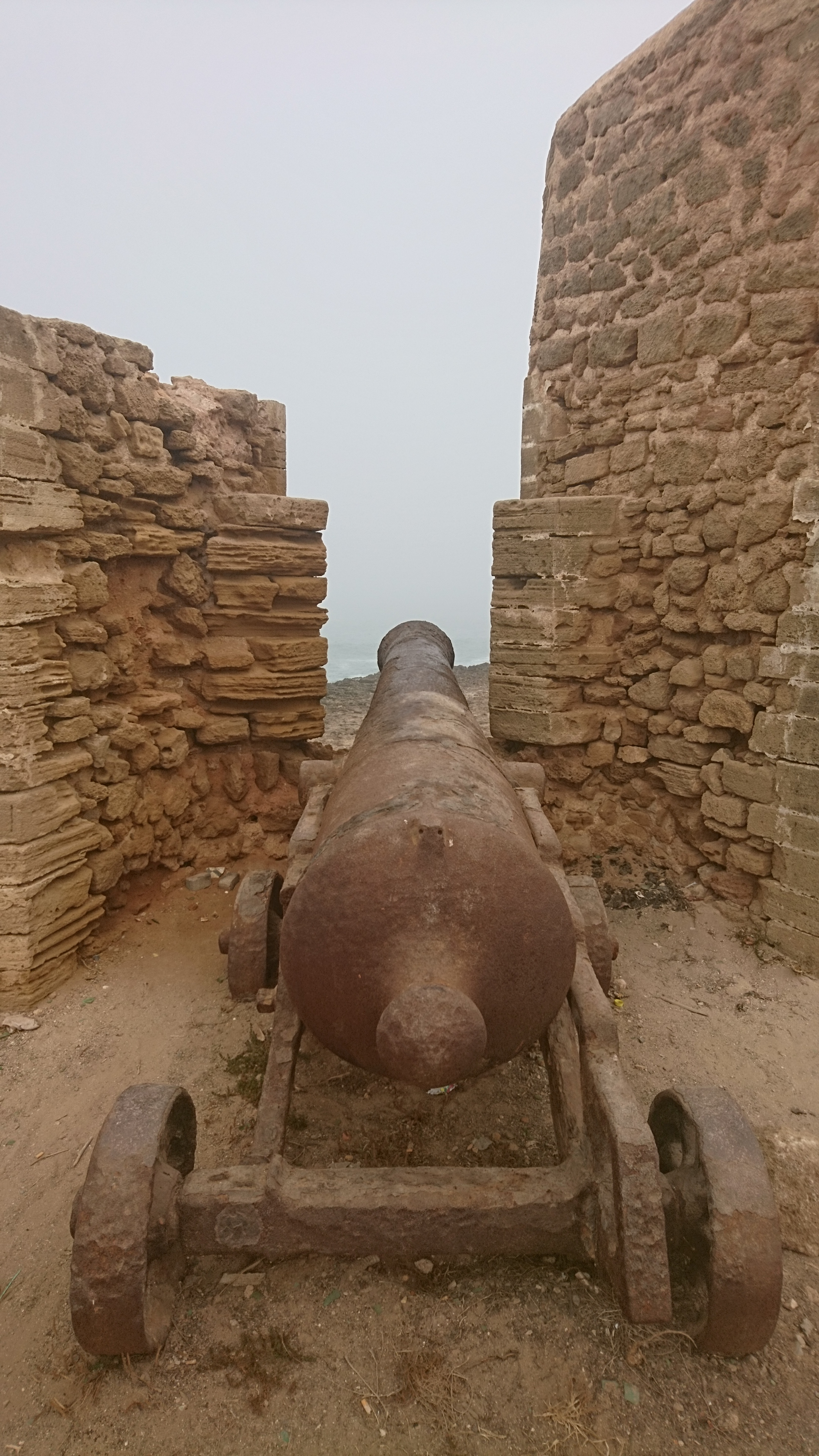 Military cannon in Salé, Morocco